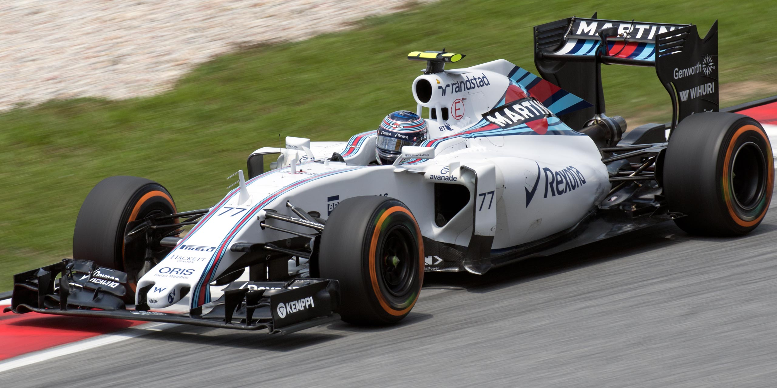 Formula One 2015 Rd.2 Malaysian GP: Valtteri Bottas (WilliamsF1)